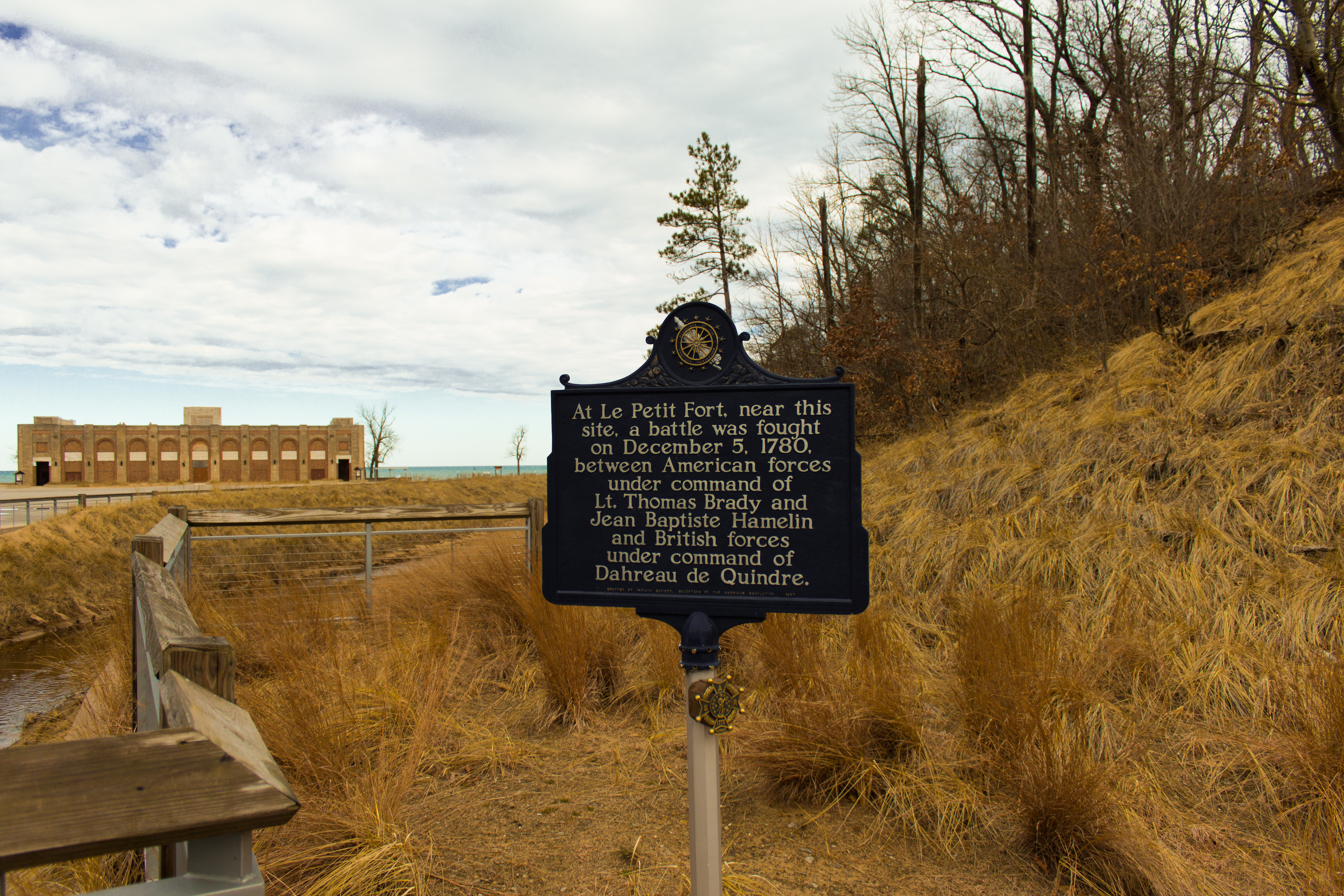 Indiana Dunes State Park taken March 7th, 2017